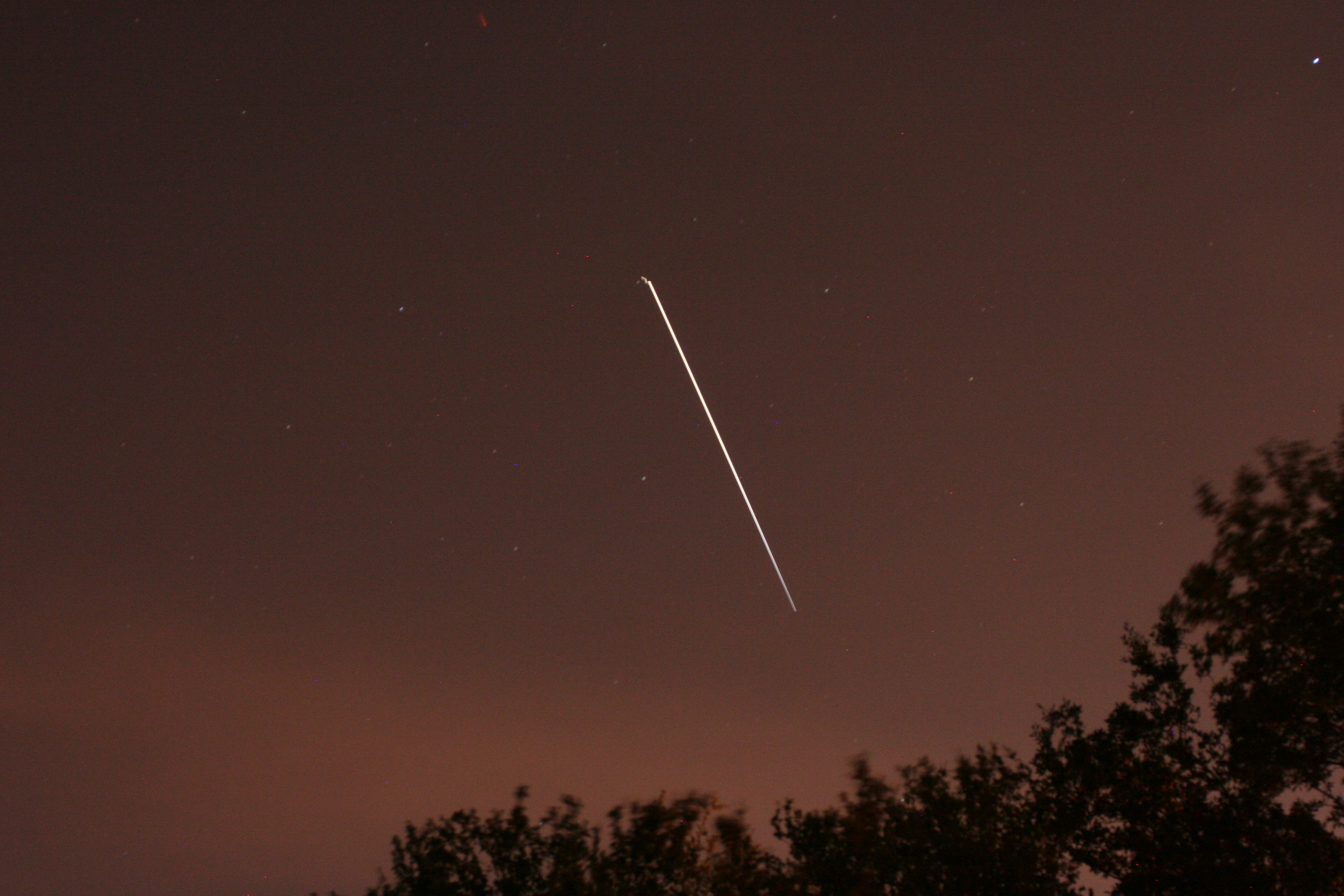 The ISS docked with Space Shuttle Atlantis as seen in the skies over Tampa, FL on May 18th, 2010 from 9:15 to 9:20 PM. Location: (28.088502,-82.427938)